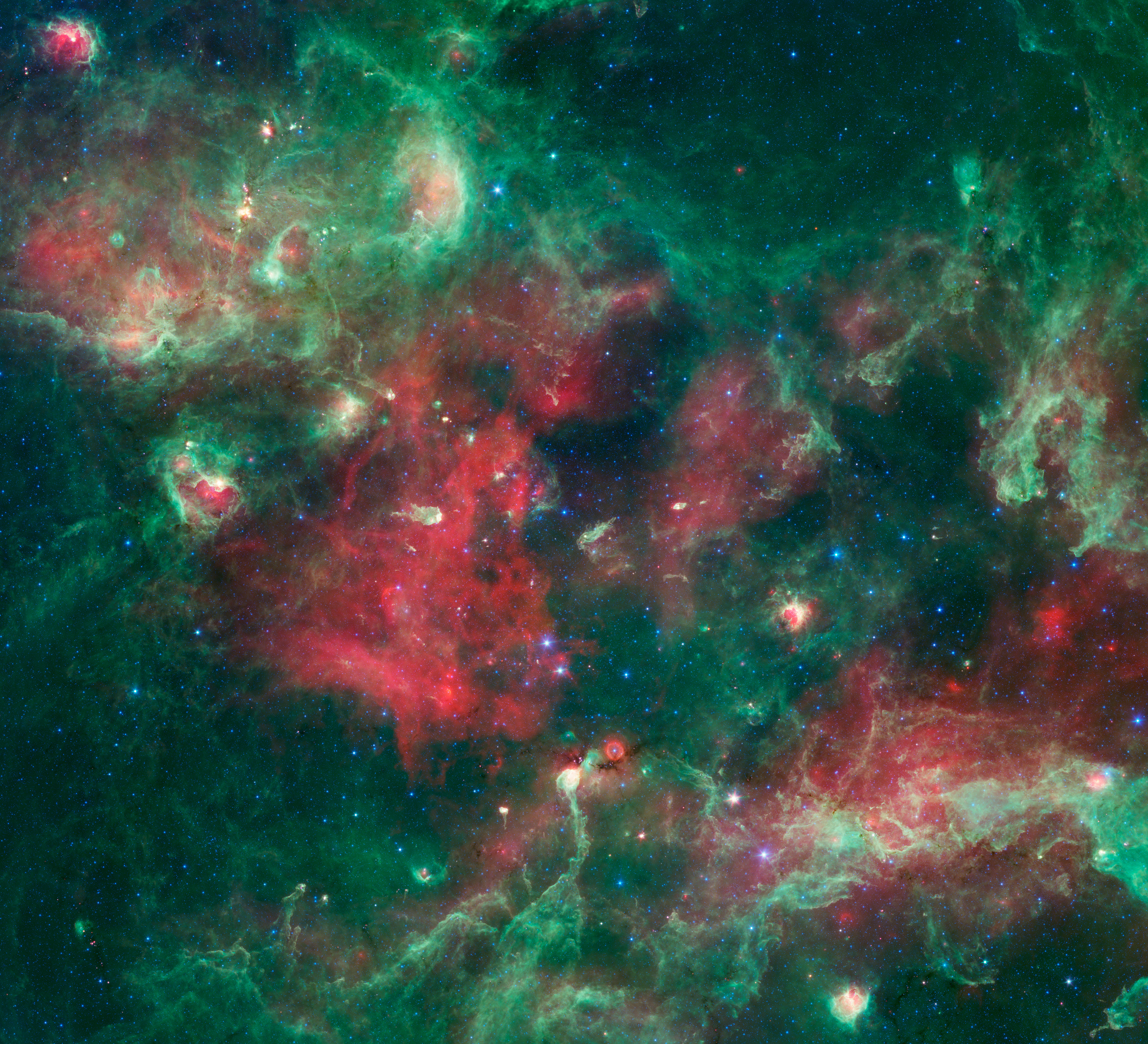 A bubbling cauldron of star birth is highlighted in this new image from NASA's Spitzer Space Telescope. Infrared light that we can't see with our eyes has been color-coded, such that the shortest wavelengths are shown in blue and the longest in red. The middle wavelength range is green. Massive stars have blown bubbles, or cavities, in the dust and gas -- a violent process that triggers both the death and birth of stars. The brightest, yellow-white regions are warm centers of star formation. The green shows tendrils of dust, and red indicates other types of dust that may be cooler, in addition to ionized gas from nearby massive stars. Cygnus X is about 4,500 light-years away in the constellation Cygnus, or the Swan. Blue represents light at 3.6 microns: 4.5-micron light is blue-green; 8.0-micron light is green; and 24-micron light is red. These data were taken before the Spitzer mission ran out of its coolant in 2009, and began its "warm" mission.